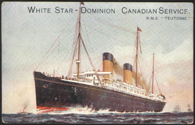 Teutonic serving White Star - Dominion Line